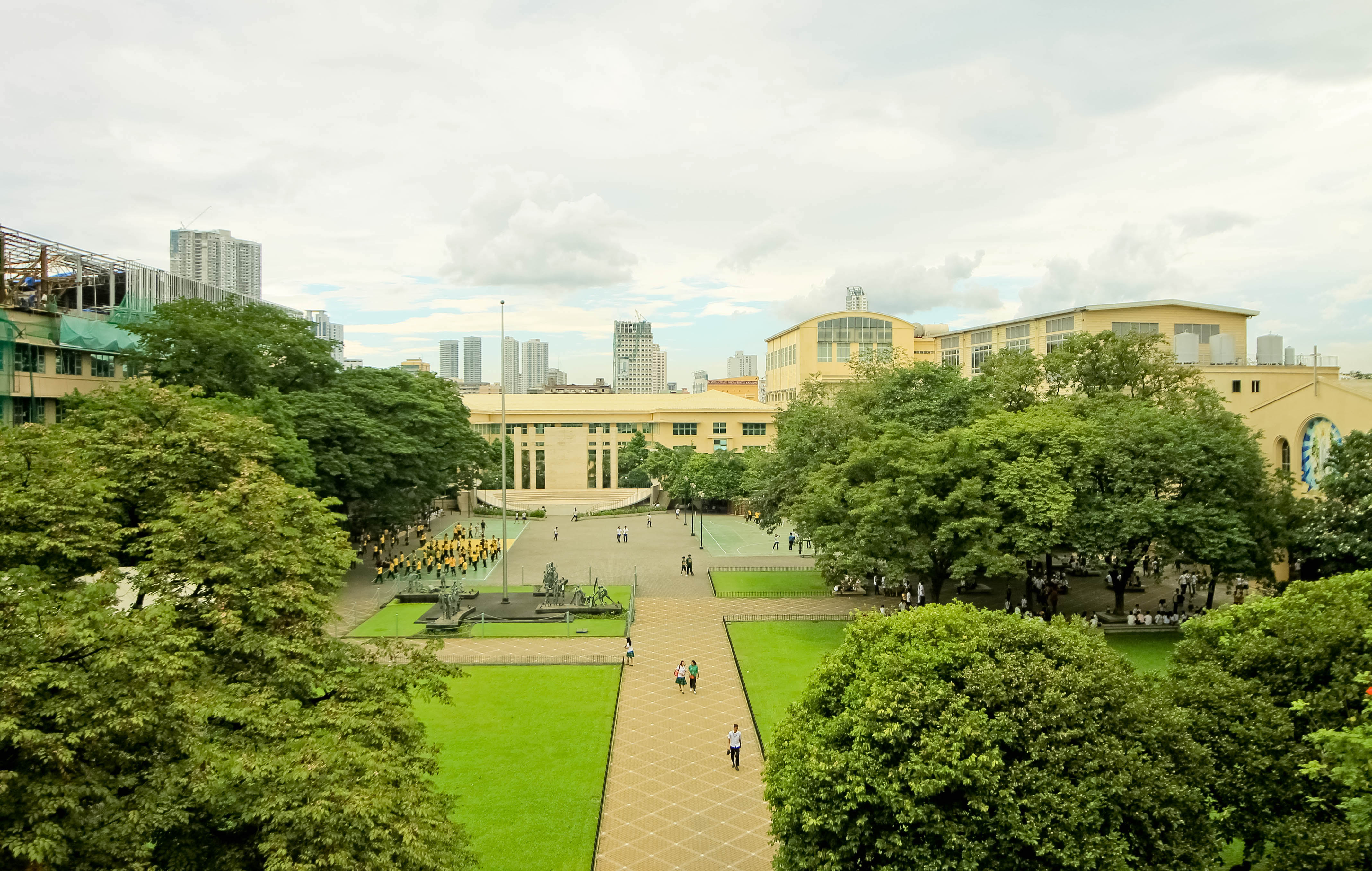 Far Eastern University, built year 1928 and is located at West Sampaloc Area,City of Manila. Our campus is noted for a number of historical buildings preserved from the first half of the 20th century.